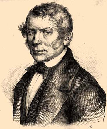 Pál Almási Balogh